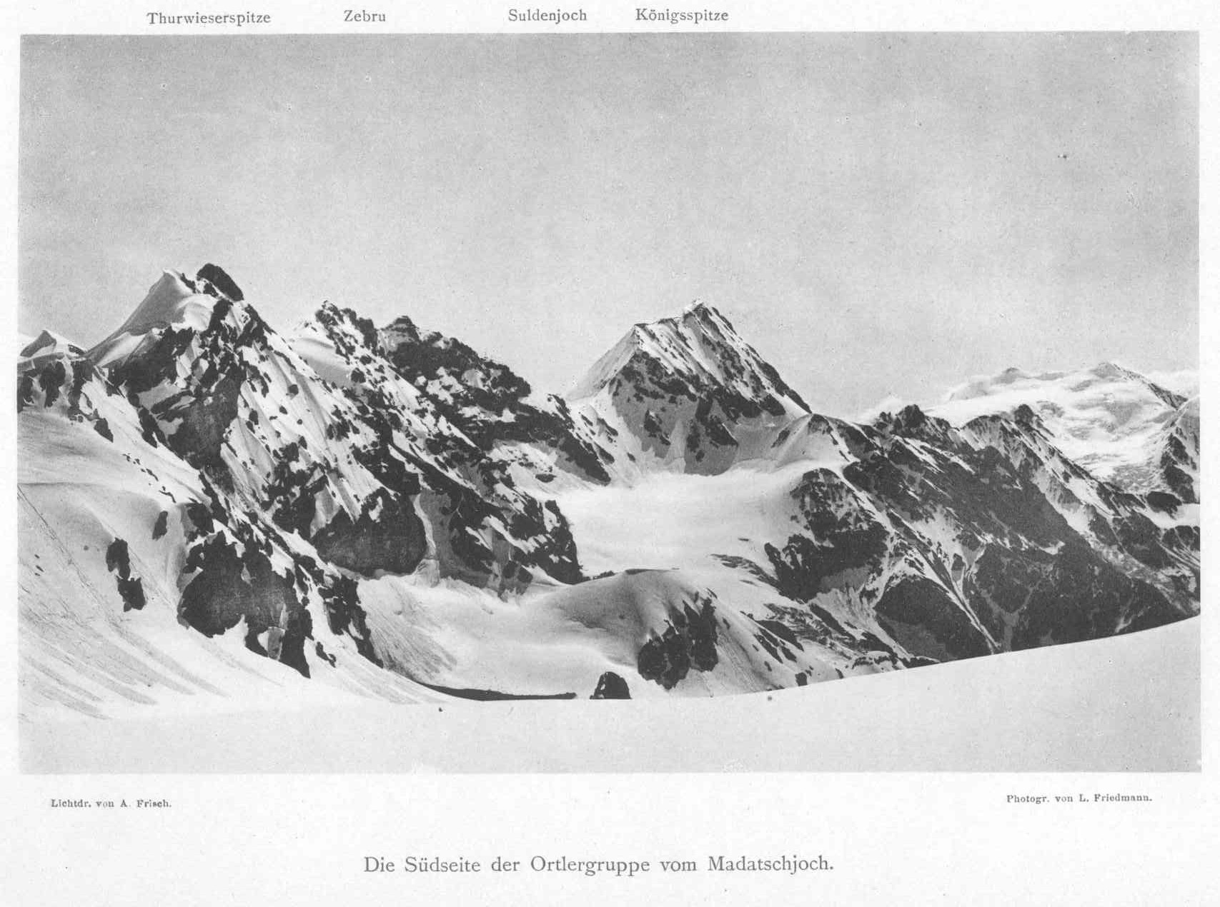 Thurwieserspitze, Zebrù and Gran Zebrù, right Monte Cevedale